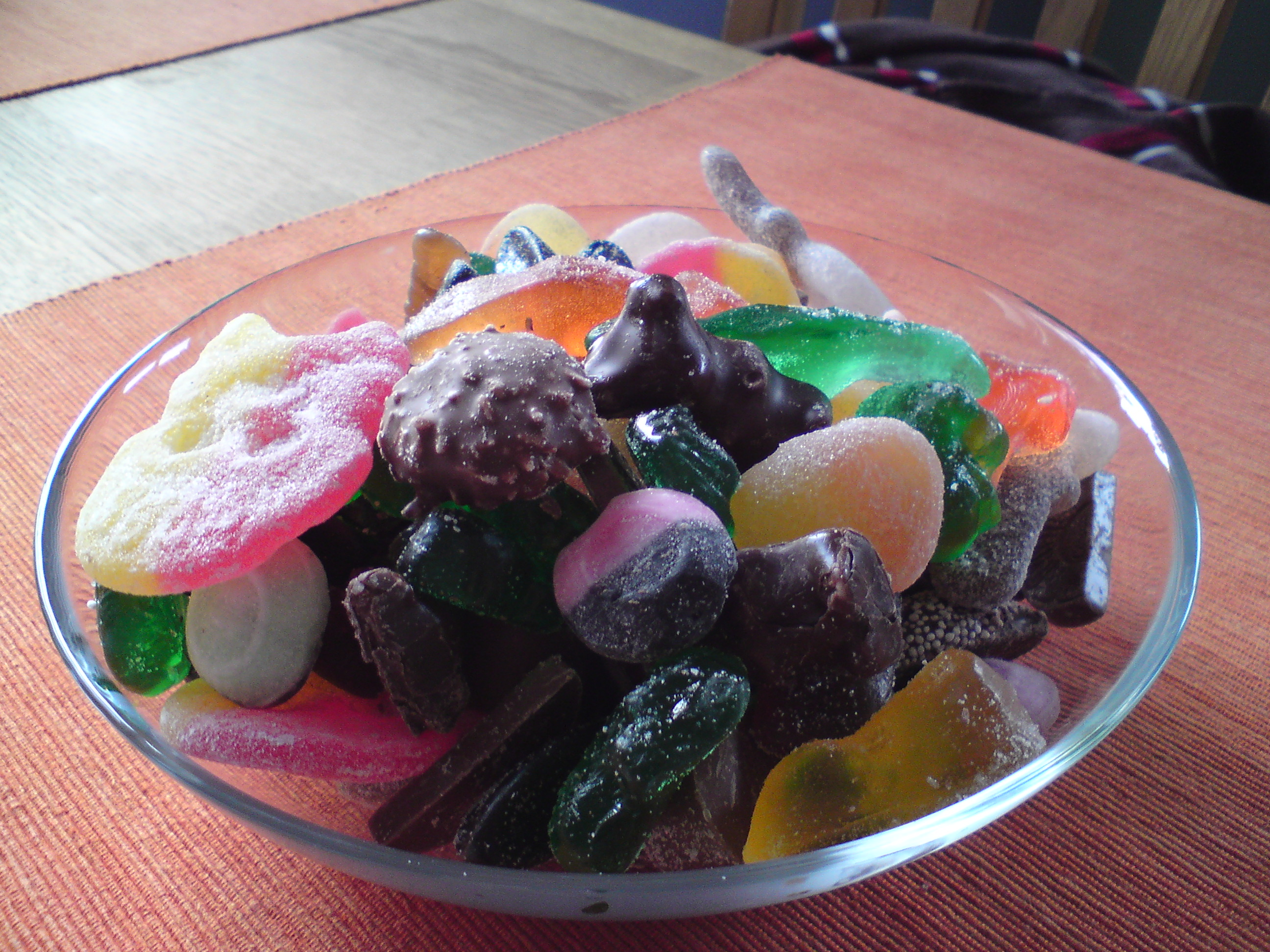 Candy